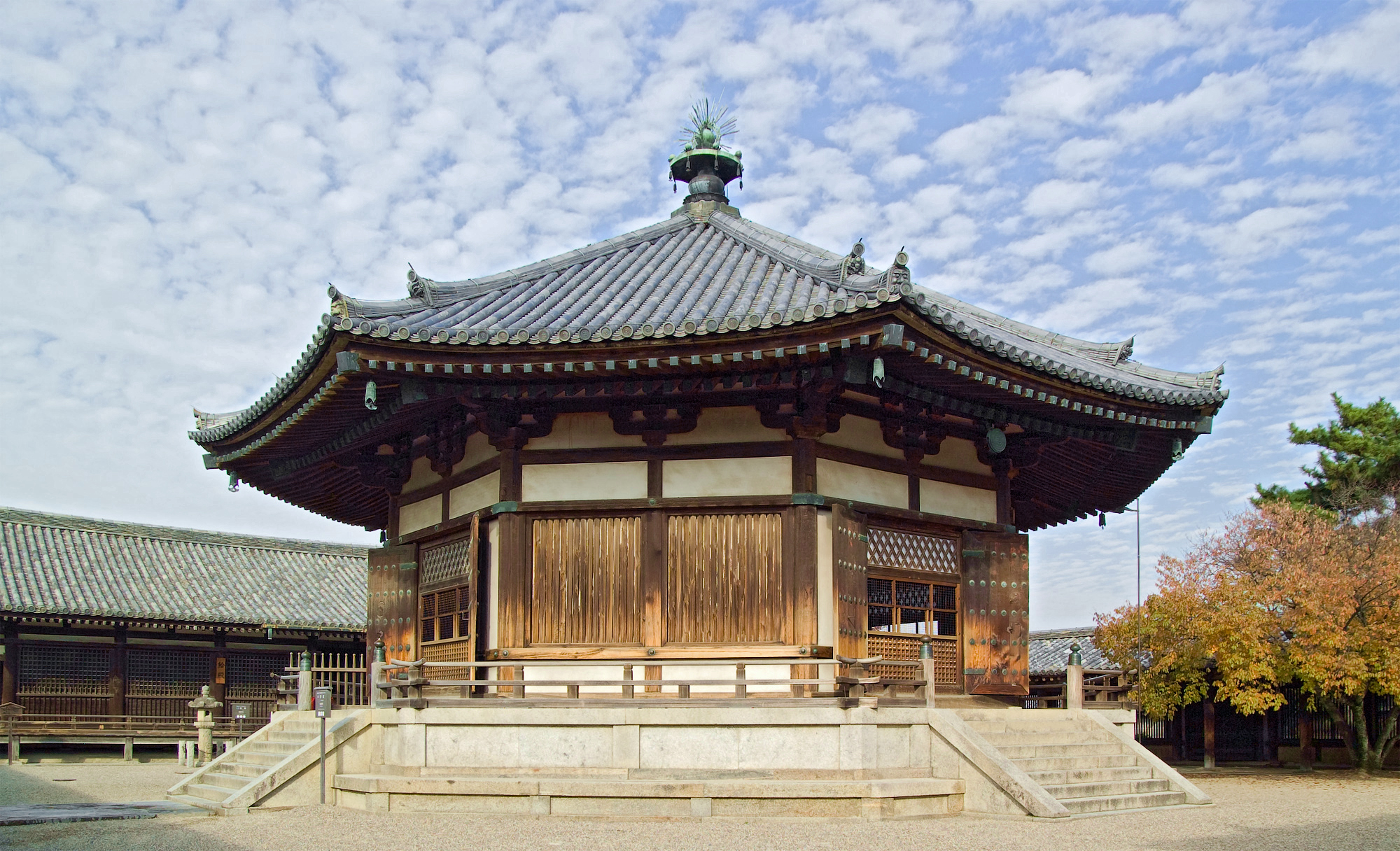 Yumedono (夢殿 - Hall of Dreams) at Horyu-ji Buddhist temple, Ikaruga, Nara Prefecture, Japan